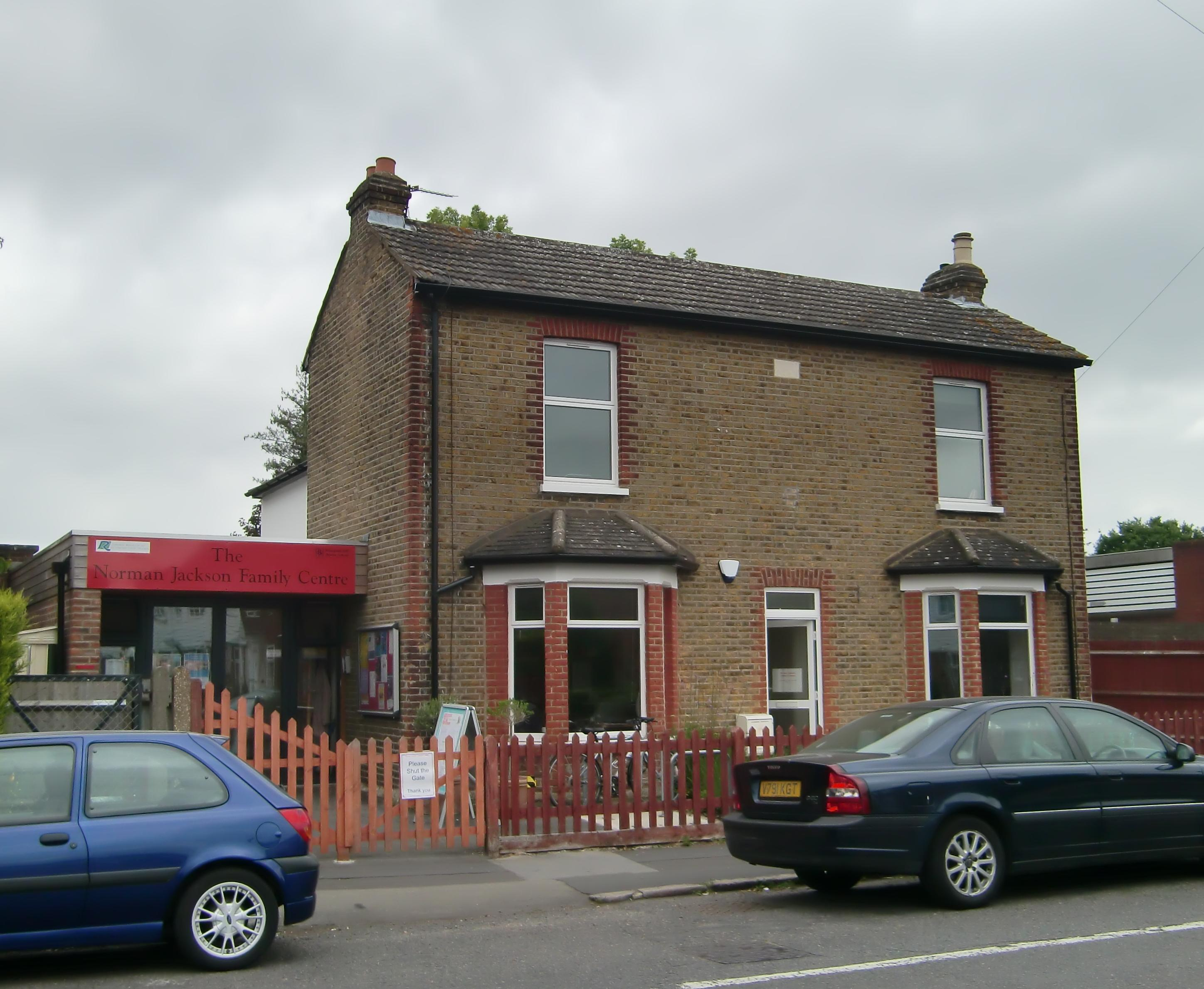 The Norman Jackson centre, Windmill rd Hampton Hill. Hampton Hill's children's centre, formerly the Hampton Hill Junior School's caretaker's house. It was converted into a childrens centre in 2009 and renamed after the local war hero and former parent at the school.